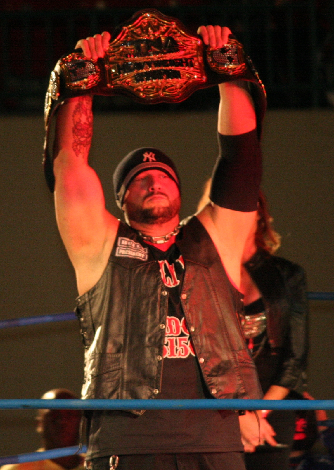 Bully Ray